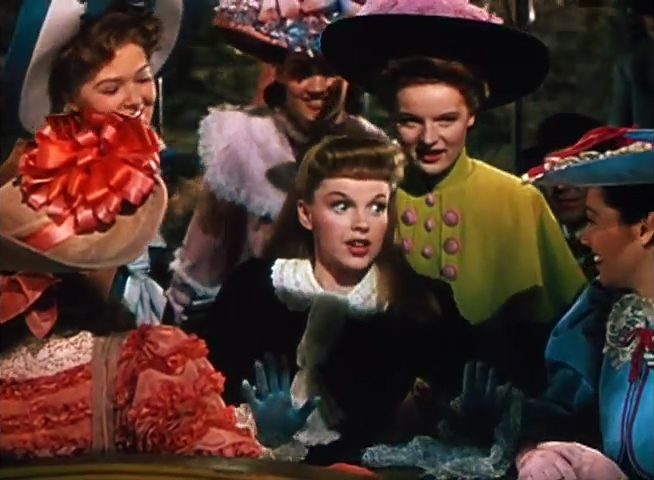 Cropped screenshot of Judy Garland from the trailer for the film Meet Me in St. Louis.